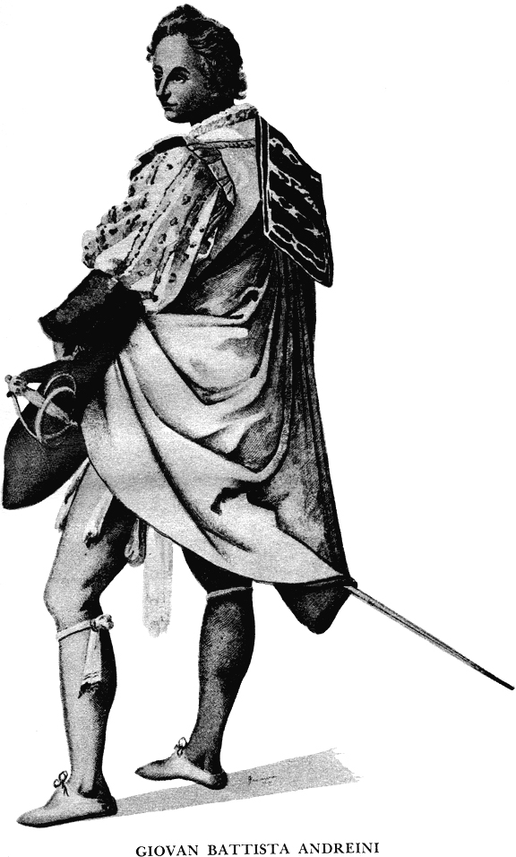 Giambattista Andreini (1578-1650), Italian actor and playwright